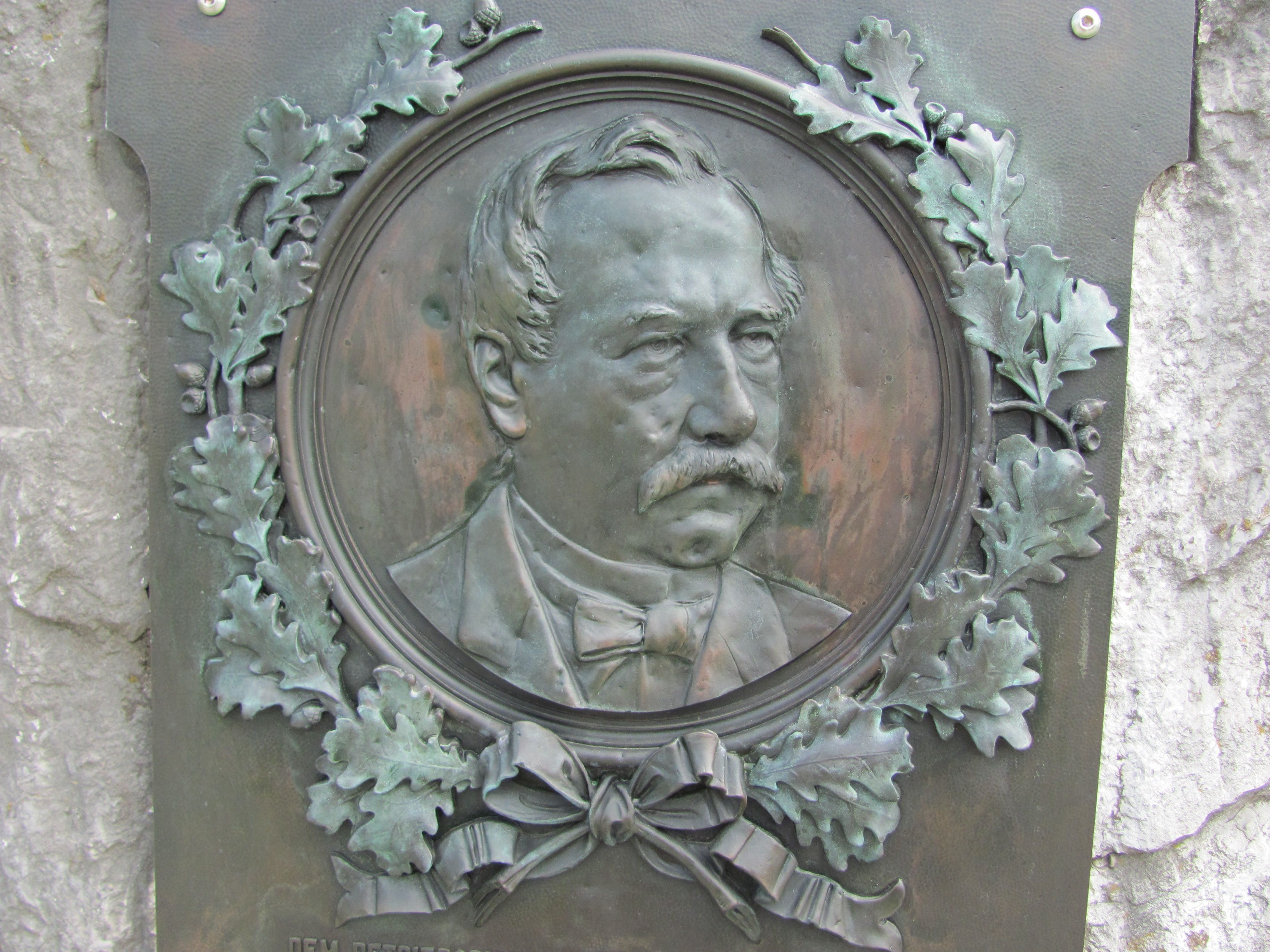 Moritz Hilf monument in front of Limburg (Hesse) railway station